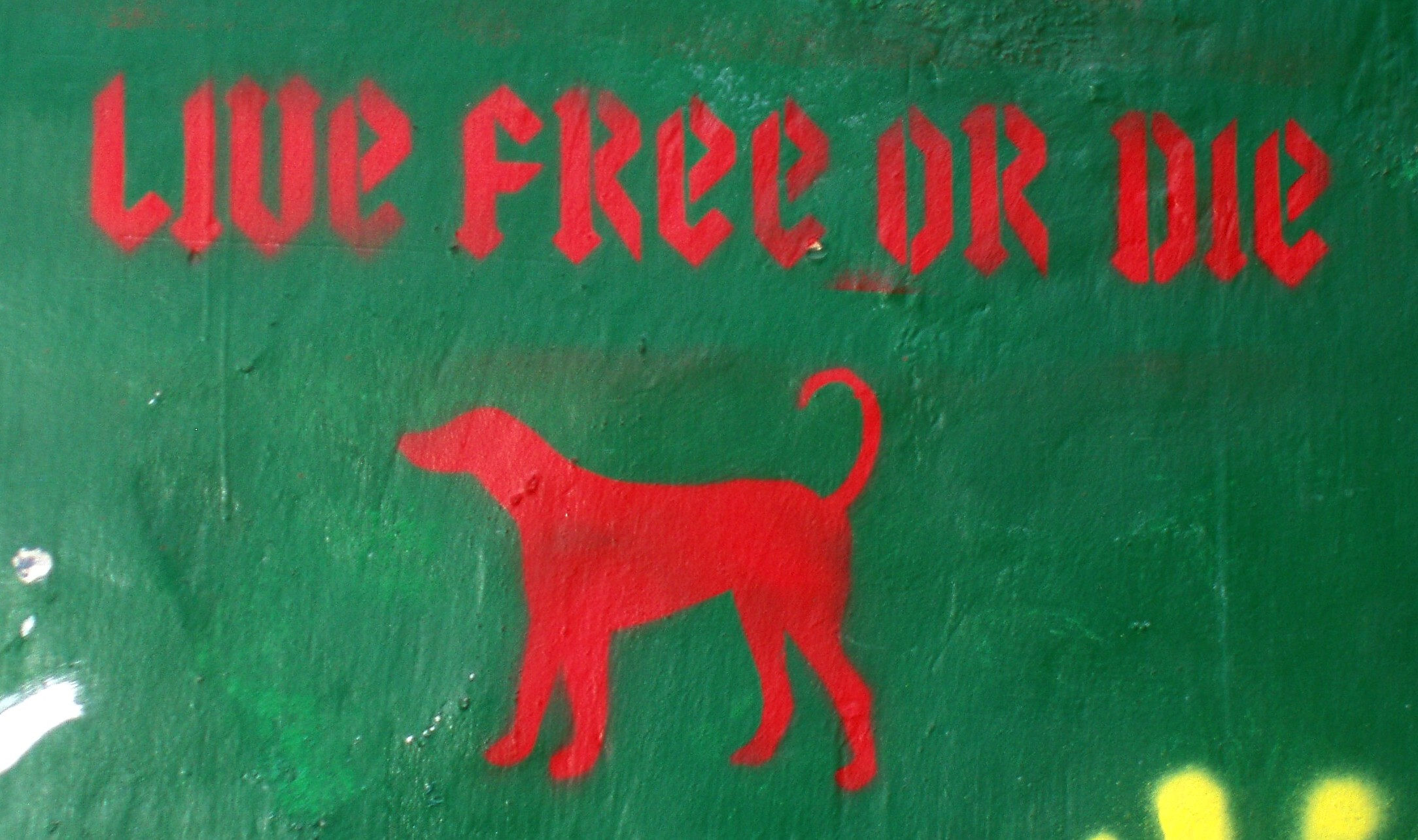 "Live Free or Die", graffiti found on wall of Edinburgh, Scotland. Photograph by me, June 2005.